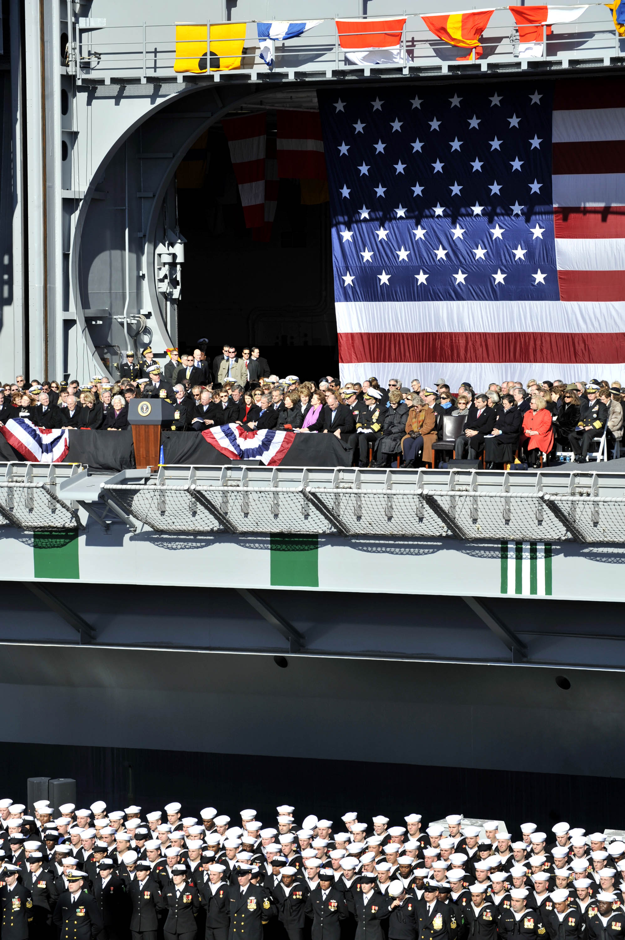 NORFOLK, Va (Jan. 10, 2009) Chief of Naval Operations (CNO) Adm. Gary Roughead delivers remarks during the commissioning ceremony for the aircraft carrier USS George H. W. Bush (CVN 77) in Norfolk, Va. (U.S. Navy photo by Mass Communication Specialist 1st Class Tiffini M. Jones/Released)